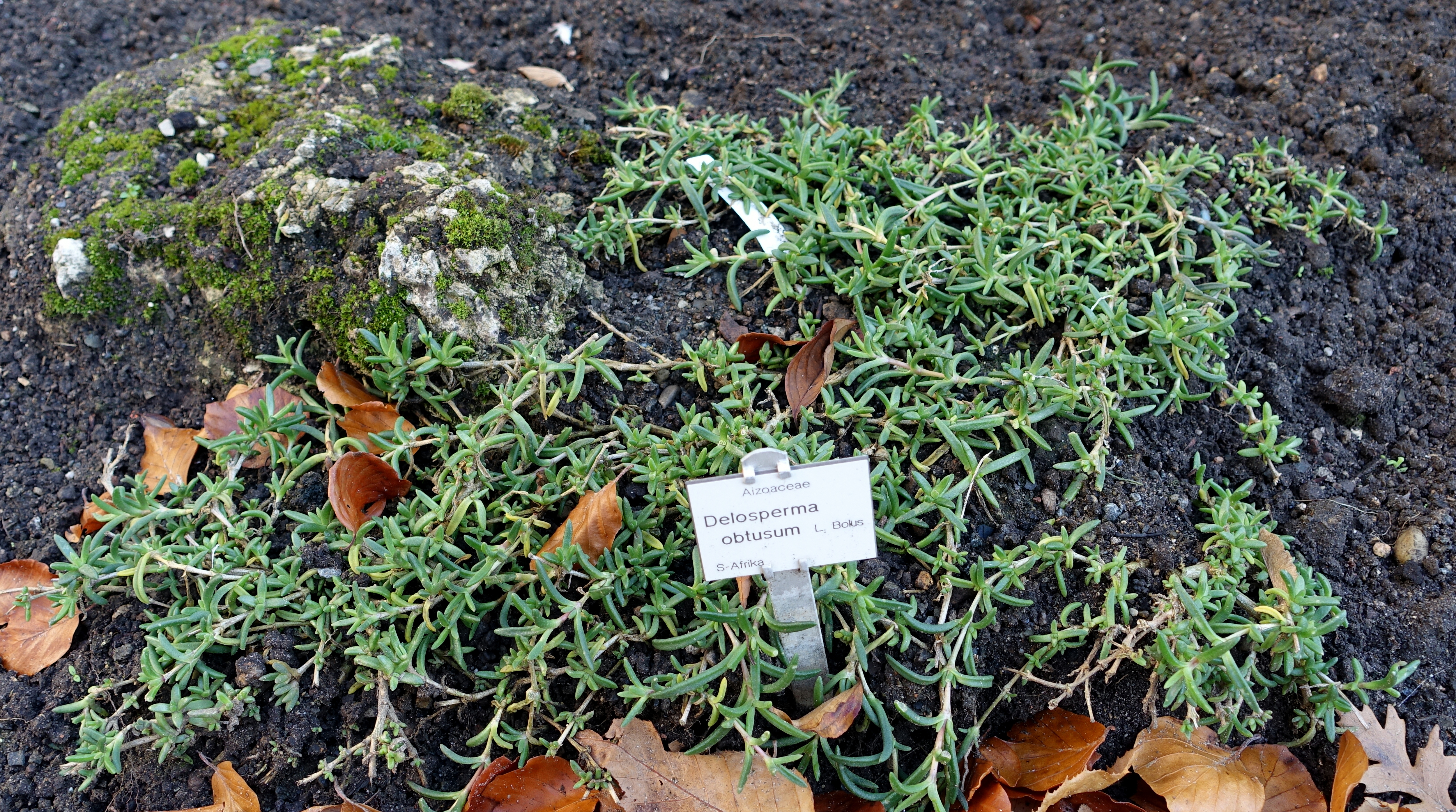 Botanical specimen in the Botanischer Garten Braunschweig - Braunschweig, Germany.